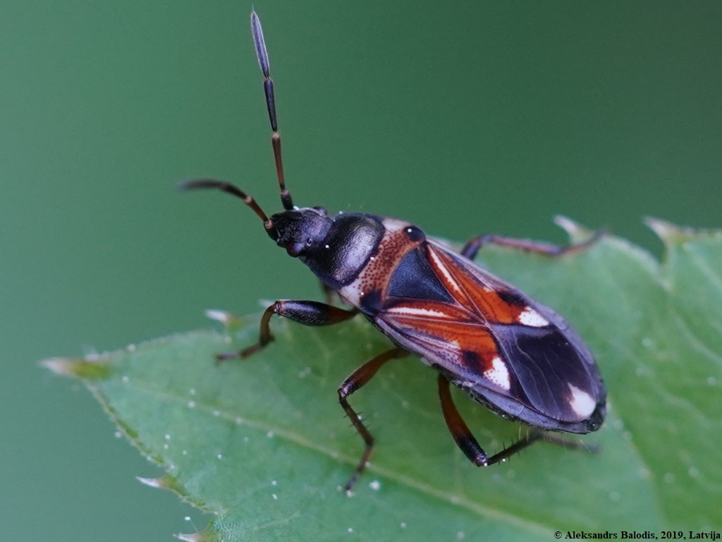 Raglius alboacuminatus